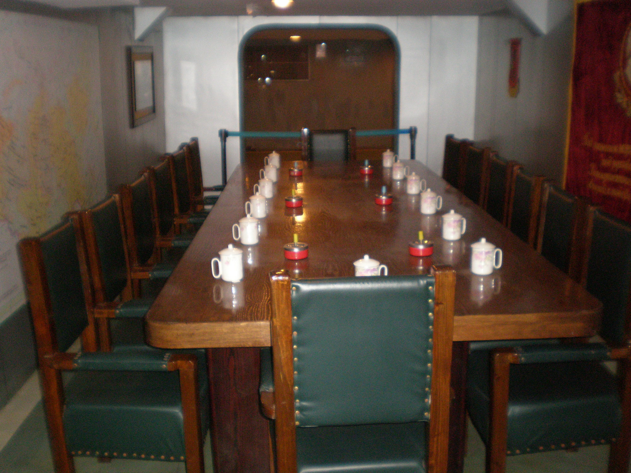 A conference room in the former Soviet aircraft carrier Minsk. The Minsk is the centerpiece of the Minsk World military theme park in Shenzhen, China.